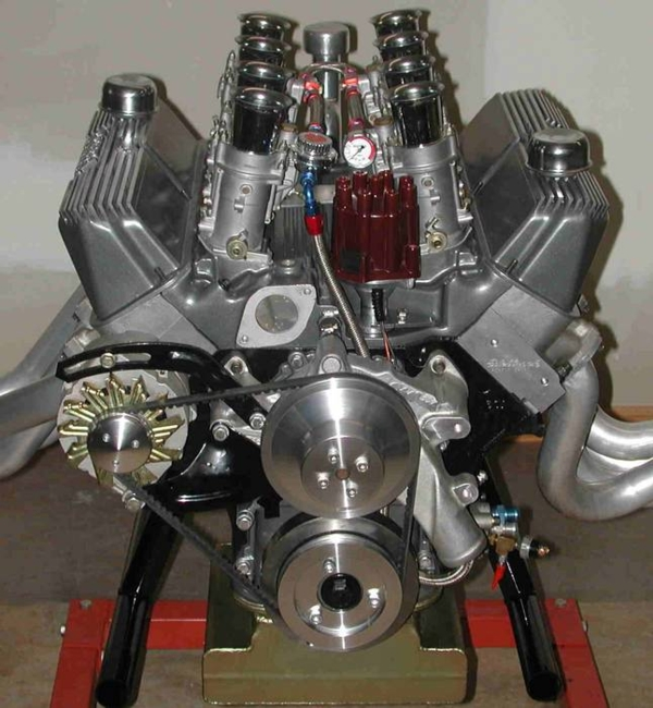 Ford FE with weber-style intake